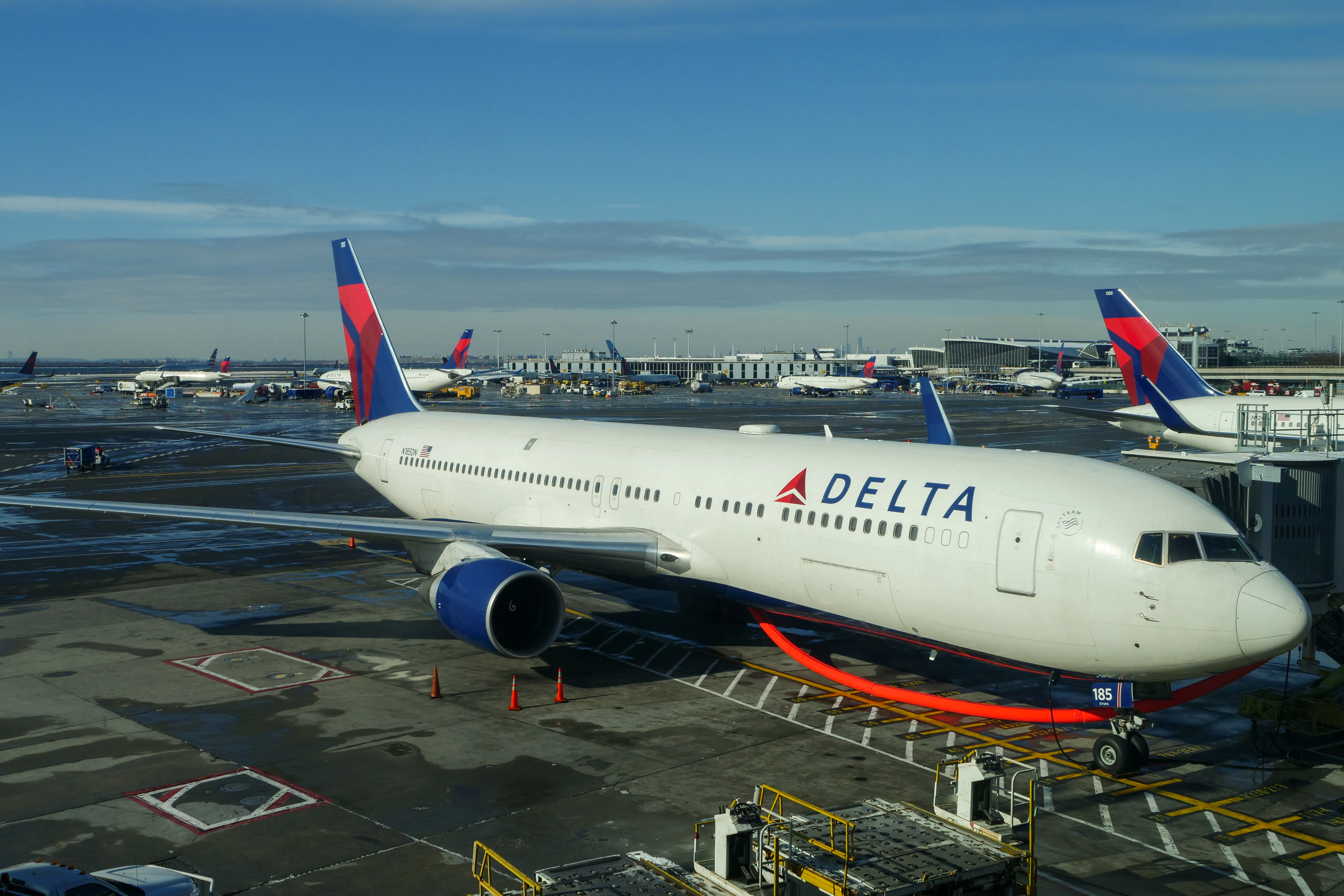 Delta Airlines 767-300 at John F. Kennedy International Airport.